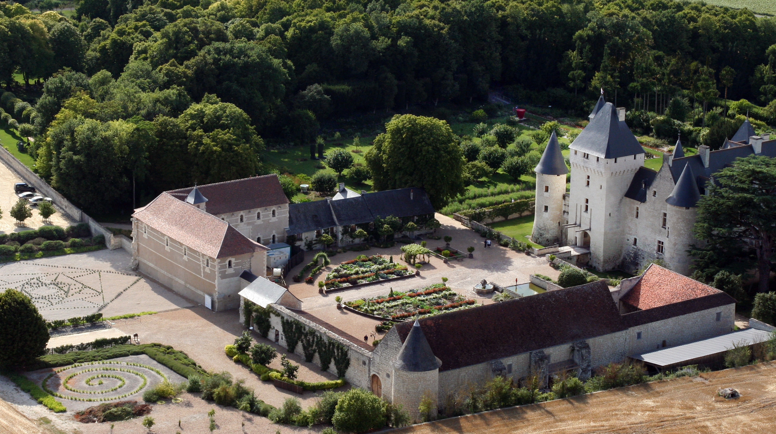 Le Rivau Castle, Castle and Garden of the Loire Valley, Next to Chinon, Richelieu, and Tours